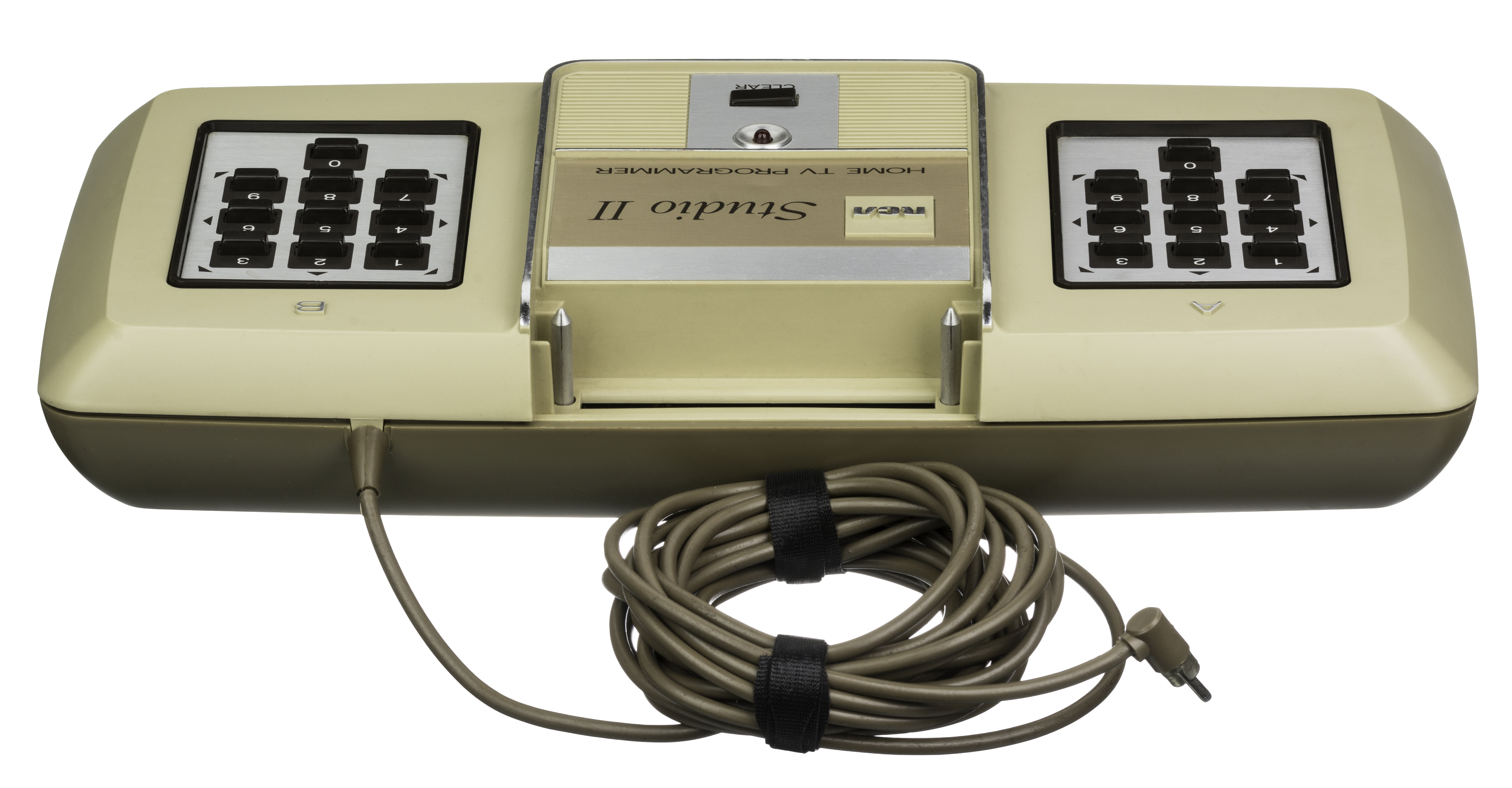 The RCA Studio II, a video game console by RCA introduced in 1977. It is the second programmable-cartridge based video game console ever released. It is also notable for not having controllers (only using the built-in keypads) and for using a single wire to carry both video and power (similar to the Atari 5200).